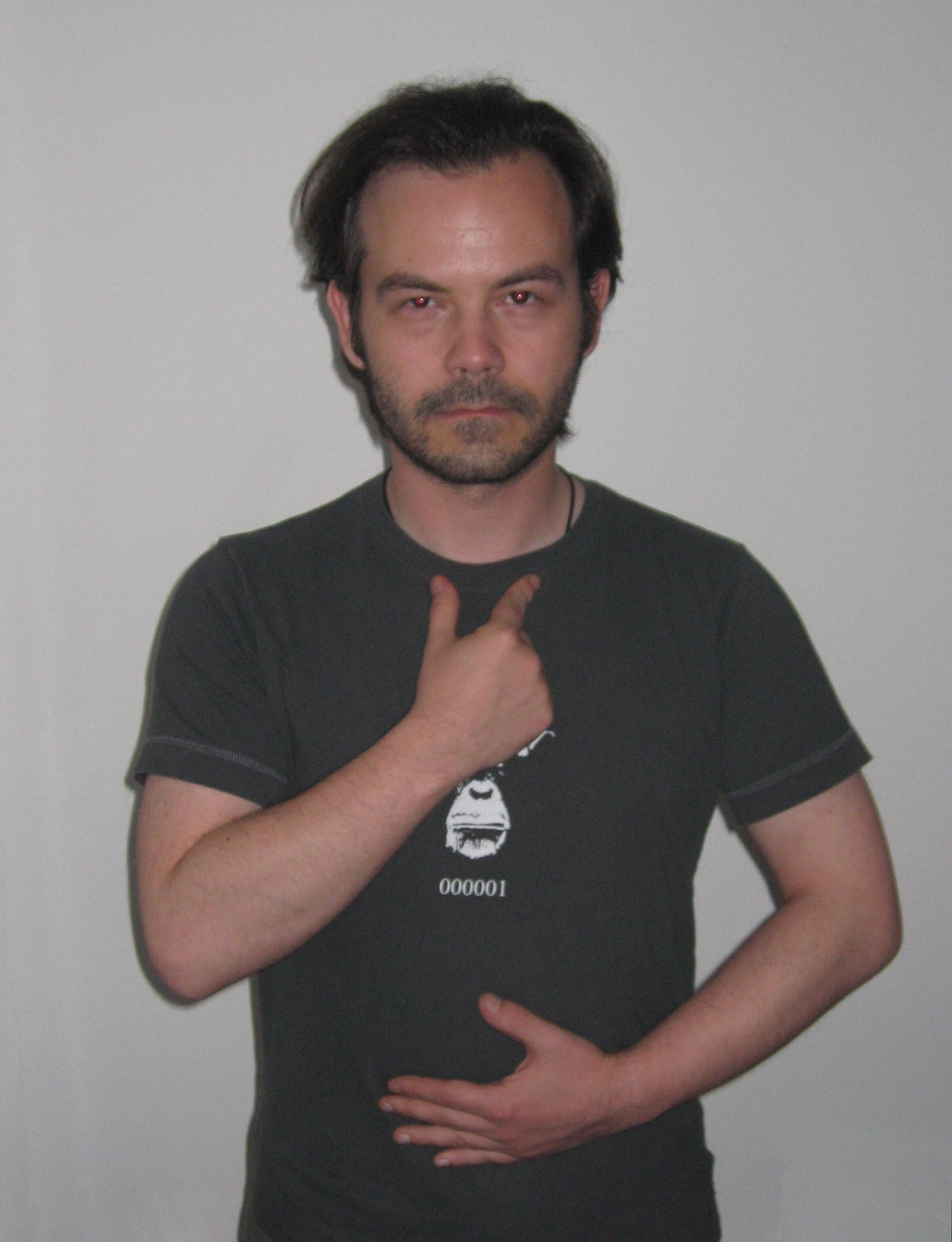 Brain buttons, as prescribed by Brain Gym